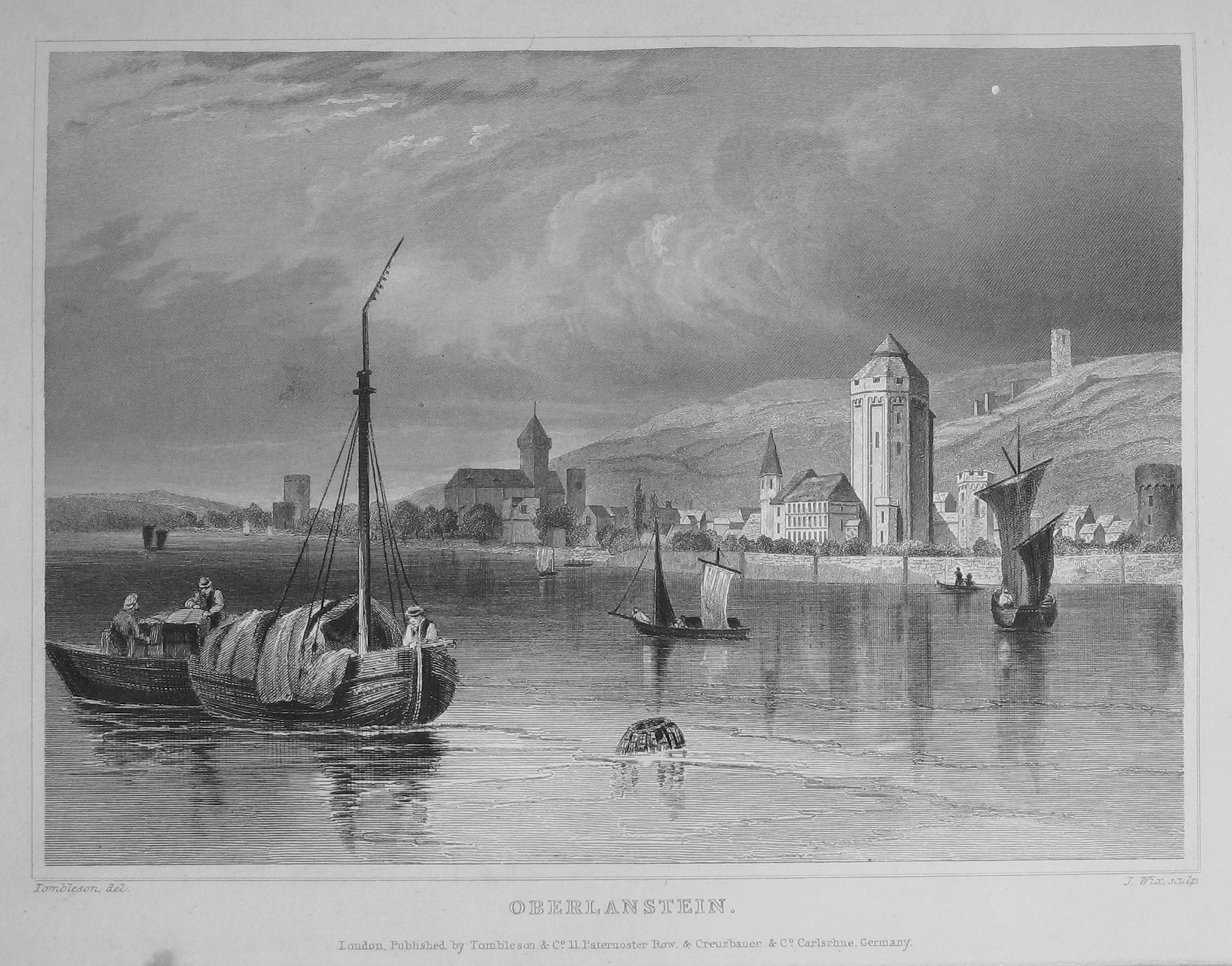 Steel engraving from "Views of the Rhine" by William Tombleson (around 1840): Oberlanstein